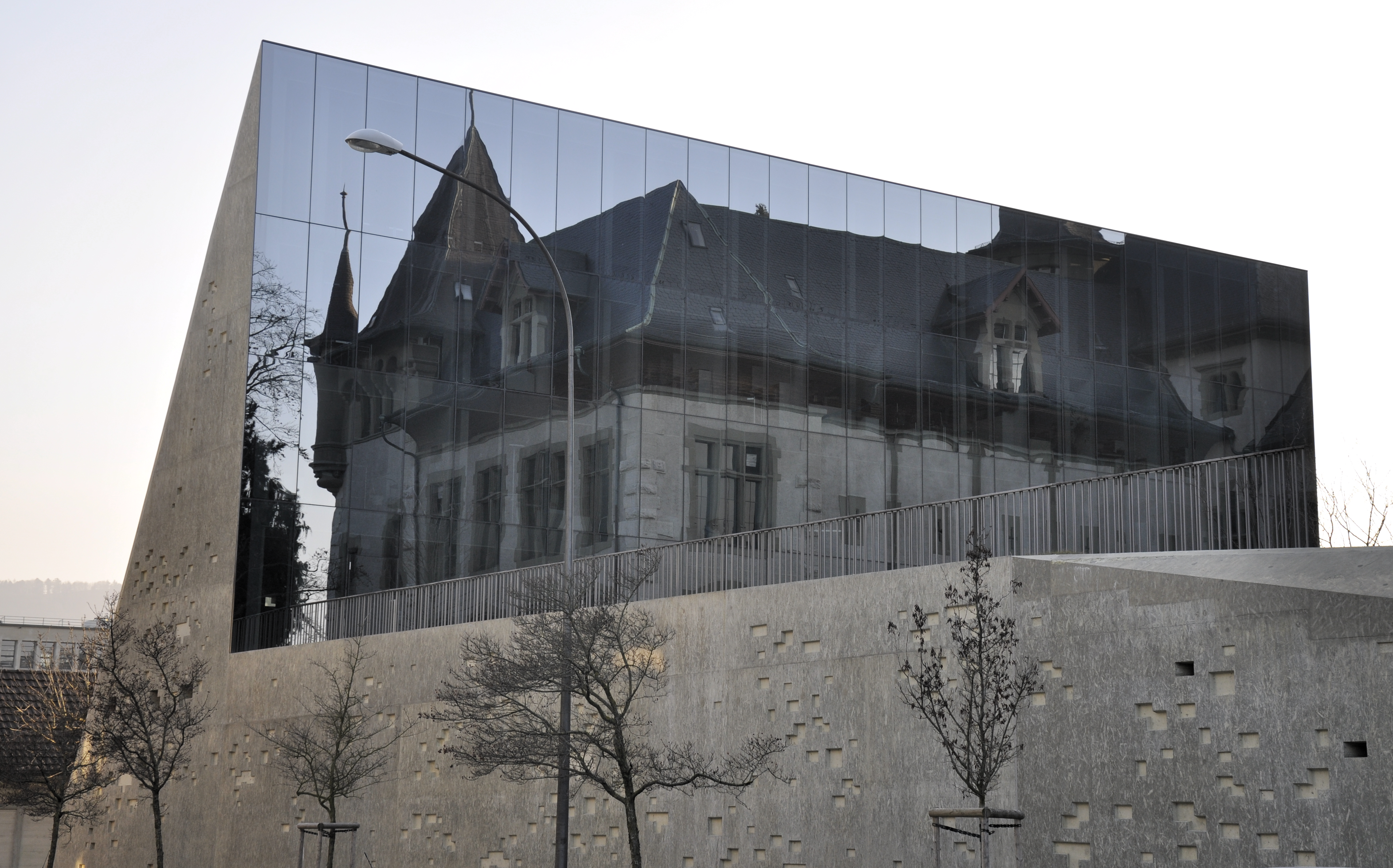 Annex of the historical museum of Berne.